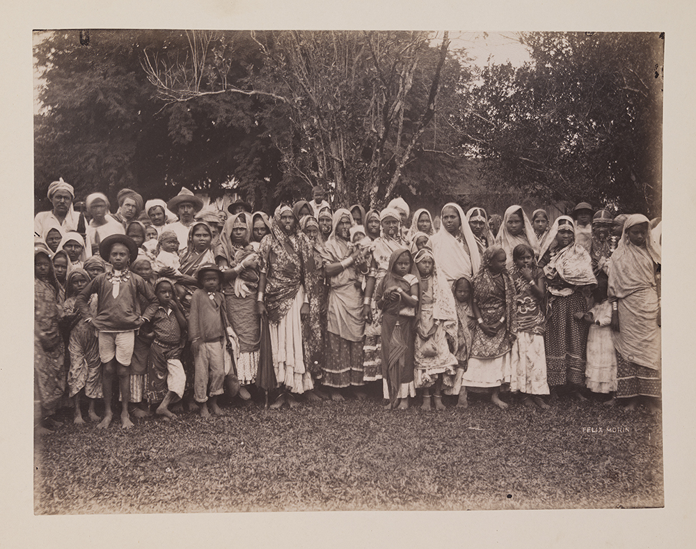 Title: [East Indian Women, Men and Children] Creator: Morin, Felix Date: ca. 1890-1896 Part of: Photographs of Jamaica, Trinidad, and Venezuela Place: Trinidad Physical Description: 1 photographic print: gelatin silver, part of 1 volume (48 prints); 16 x 22 cm on 25 x 30 cm mount File: ag1982_0037_36_opt.jpg Rights: Please cite DeGolyer Library, Southern Methodist University when using this file. A high-resolution version of this file may be obtained for a fee. For details see the web page. For other information, . For more information and to view the image in high resolution, View Latin America and the Caribbean: Photographs, Manuscripts, and Imprints